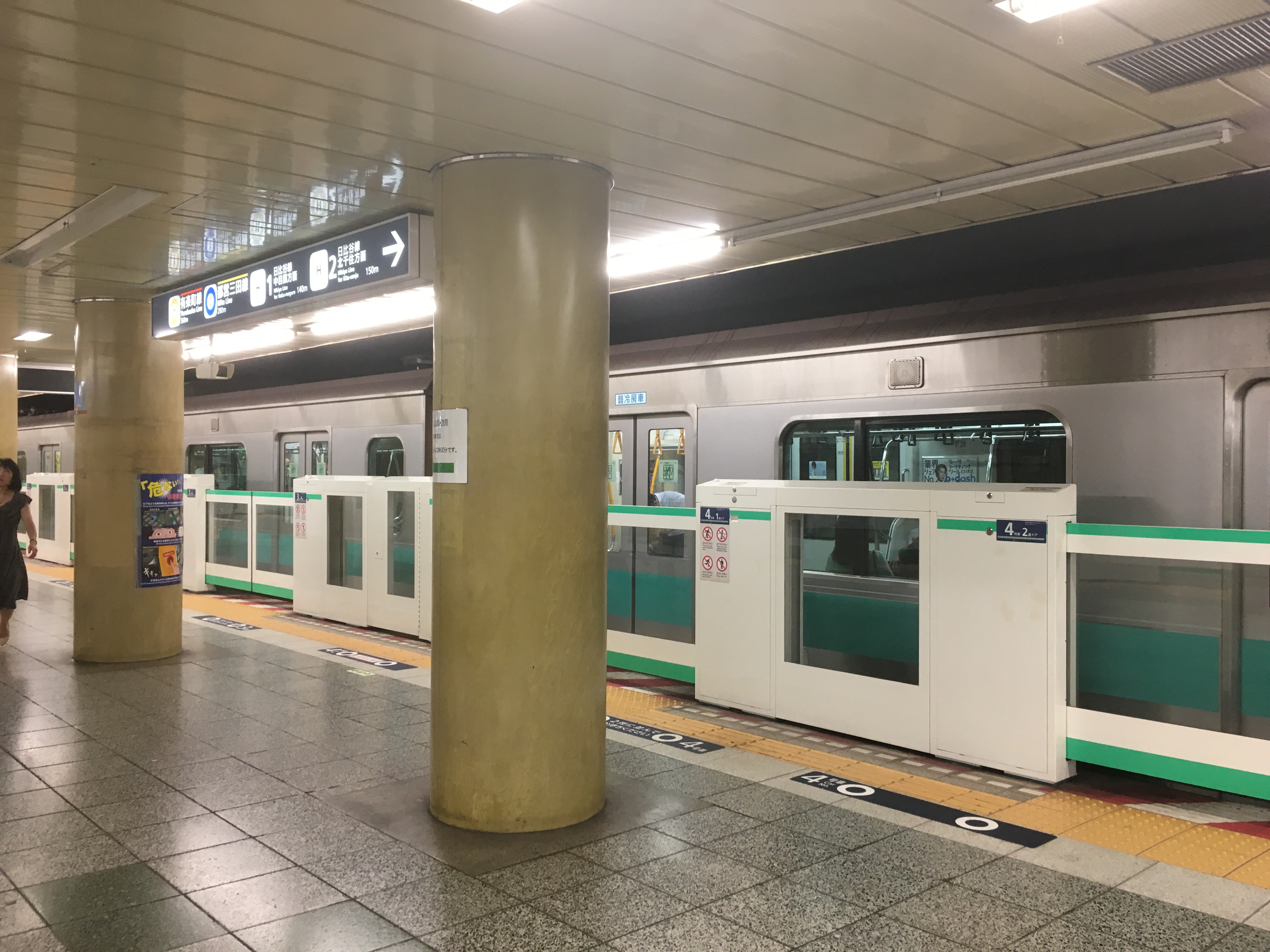 日比谷駅のホーム (Hibiya Station platforms)